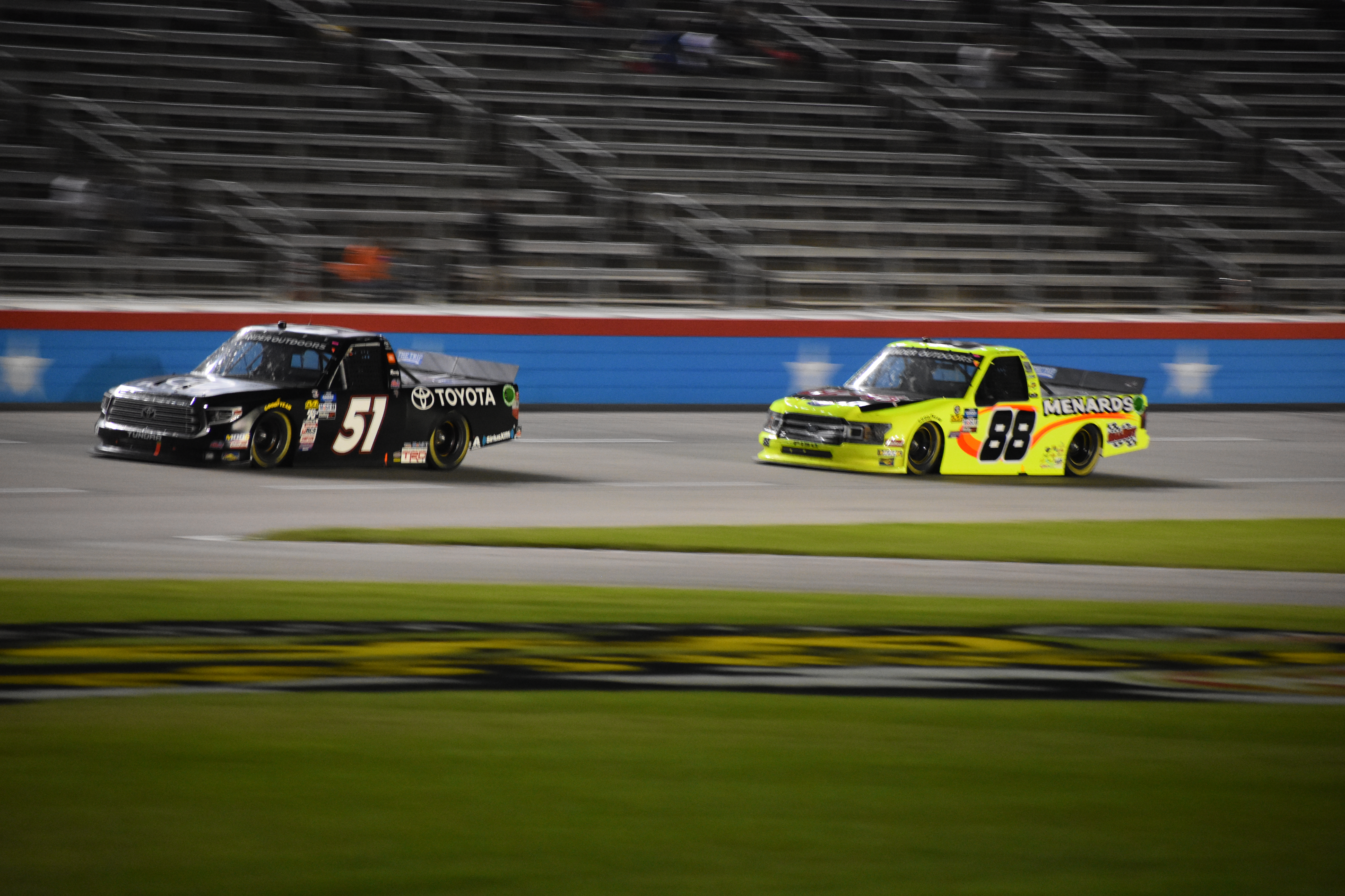 Greg Biffle ahead of Matt Crafton in the 2019 400 at Texas. Biffle would head on to win the race.